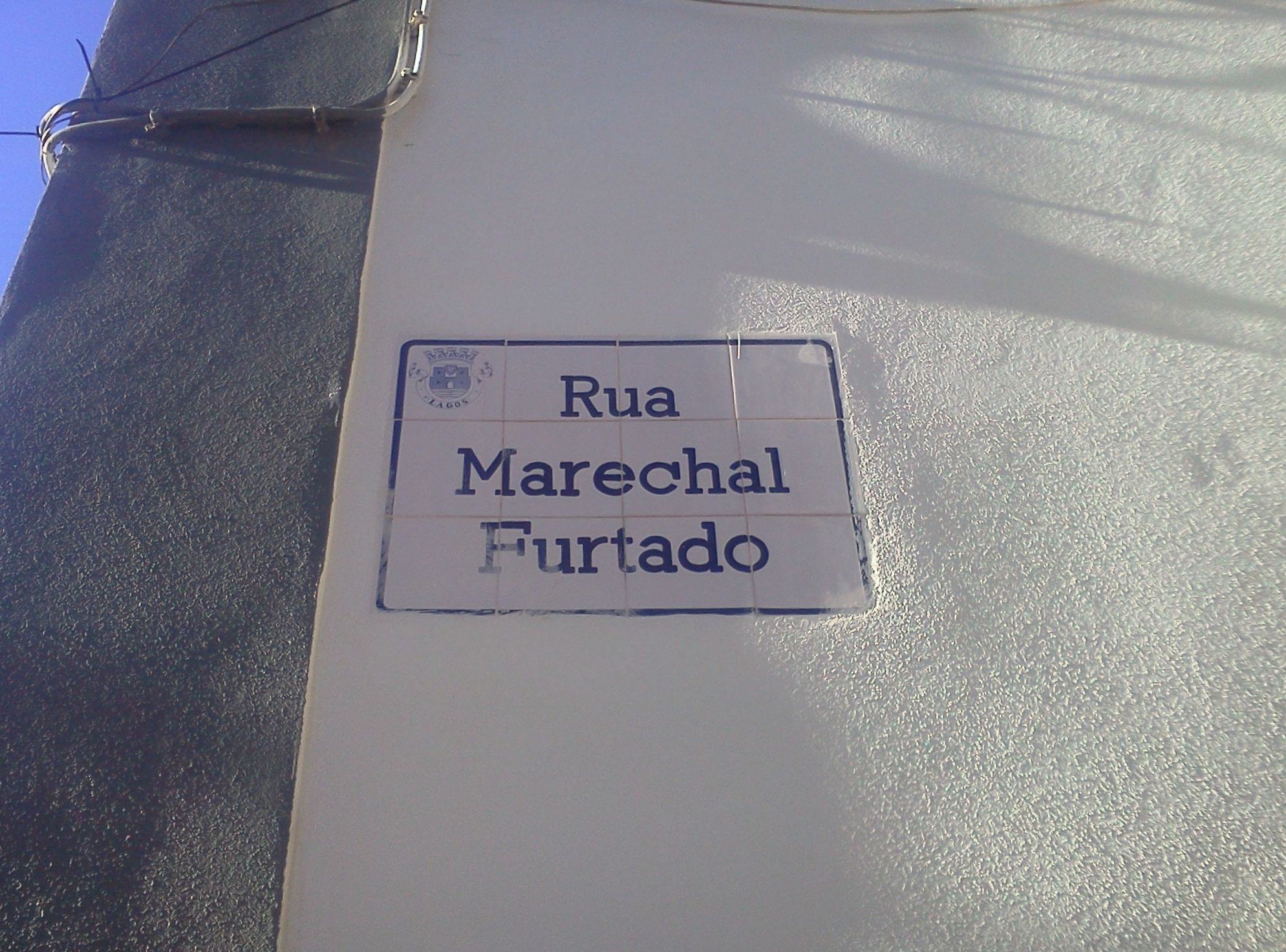 Street sign of Rua Marechal Furtado, in the city of Lagos, in southern Portugal.